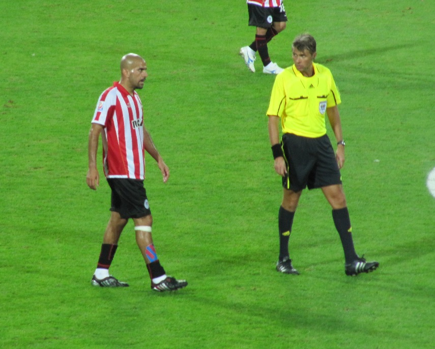 Juan Sebastian Veron & Roberto Rosetti during 2009 FIFA Club World Cup.